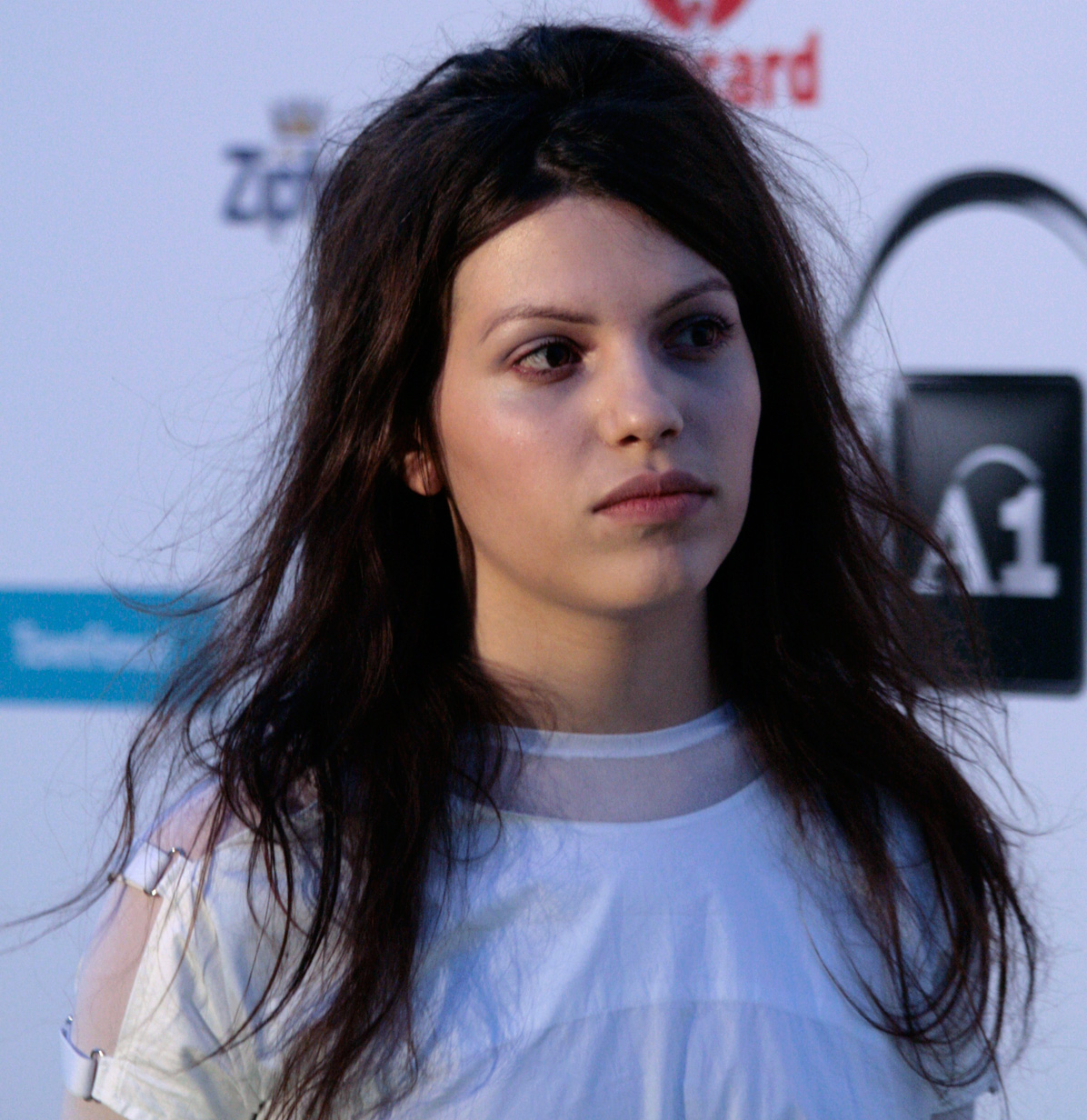 Soap&Skin at the Amadeus Austrian Music Award (Museumsquartier, Vienna)